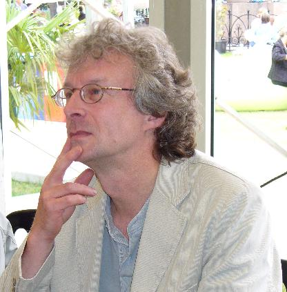 A photo of Andrew Drummond, author of A Hand-book of Volapük